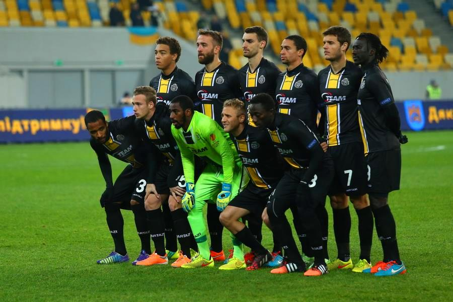 K.S.C. Lokeren Oost-Vlaanderen 2014